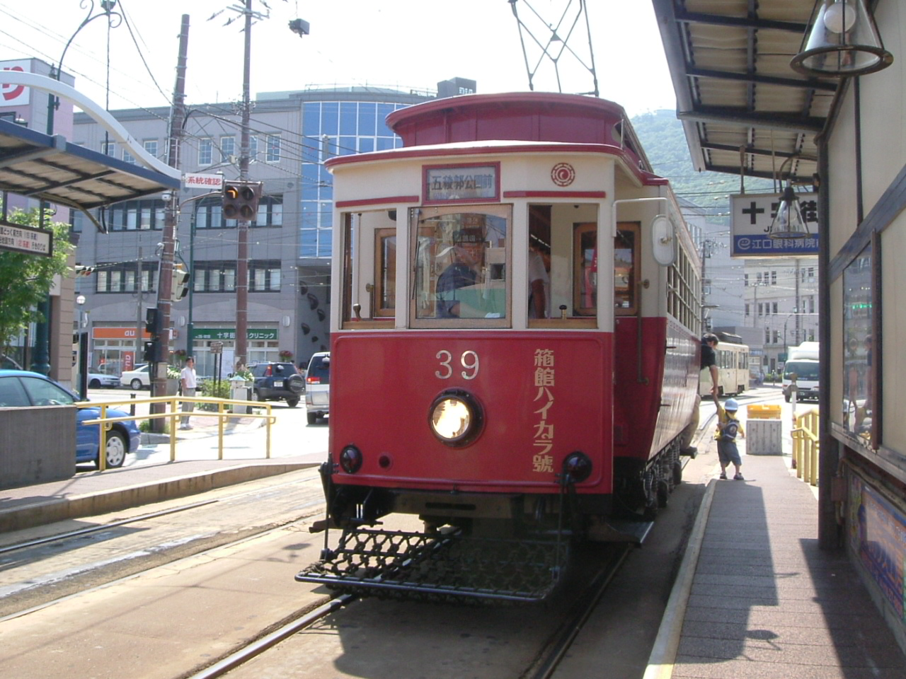 Hakodate City Tram Hakodate Haikara-go.